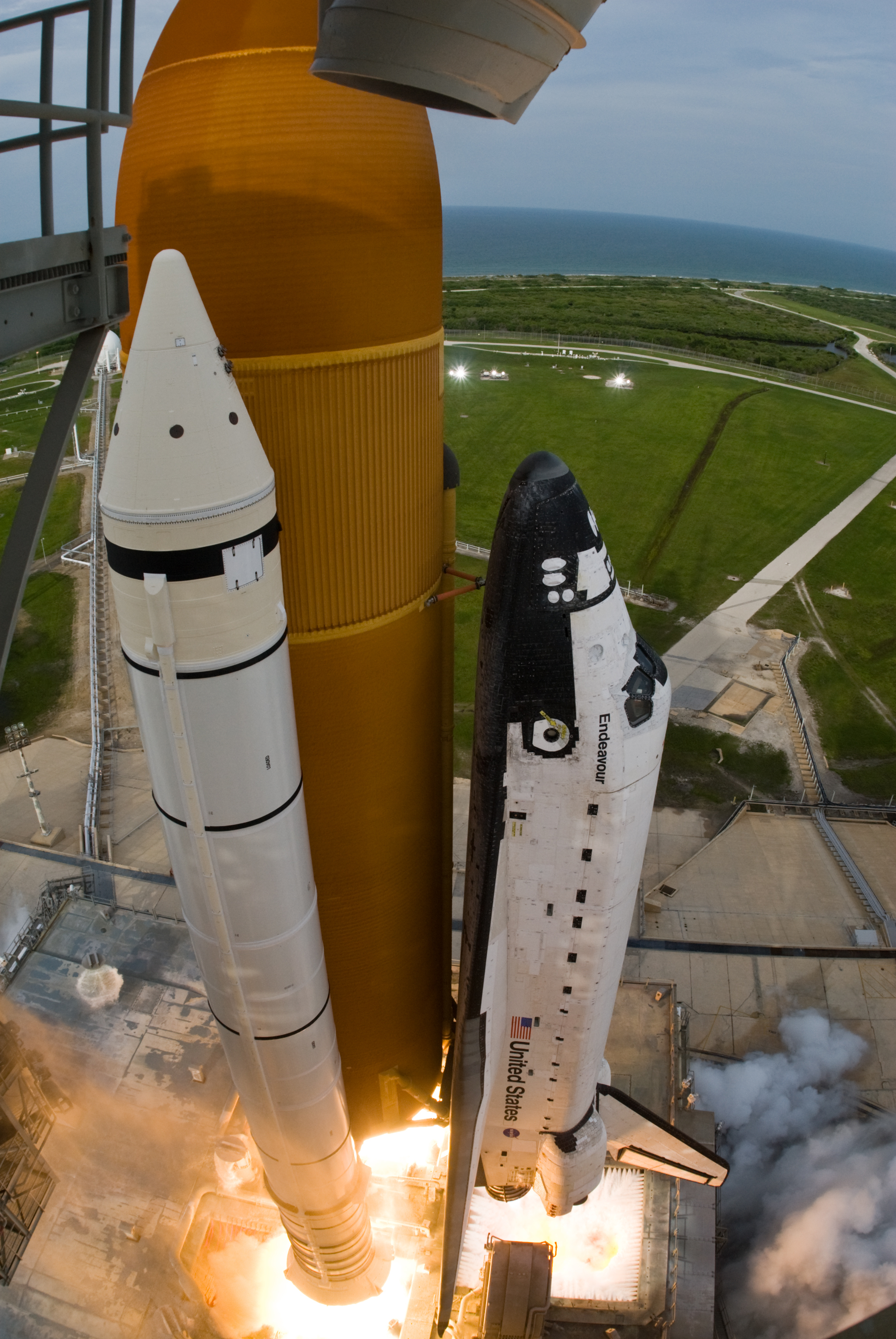 CAPE CANAVERAL, Fla. – A fish-eye view captures this close view of space shuttle Endeavour as it leaps from NASA Kennedy Space Center's Launch Pad 39A on the STS-127 mission. Liftoff was on-time at 6:03 p.m. EDT. Today was the sixth launch attempt for the STS-127 mission. The launch was scrubbed on June 13 and June 17 when a hydrogen gas leak occurred during tanking due to a misaligned Ground Umbilical Carrier Plate. The mission was postponed July 11, 12 and 13 due to weather conditions near the Shuttle Landing Facility at Kennedy that violated rules for launching, and lightning issues. Endeavour will deliver the Japanese Experiment Module's Exposed Facility and the Experiment Logistics Module-Exposed Section in the final of three flights dedicated to the assembly of the Japan Aerospace Exploration Agency's Kibo laboratory complex on the International Space Station.